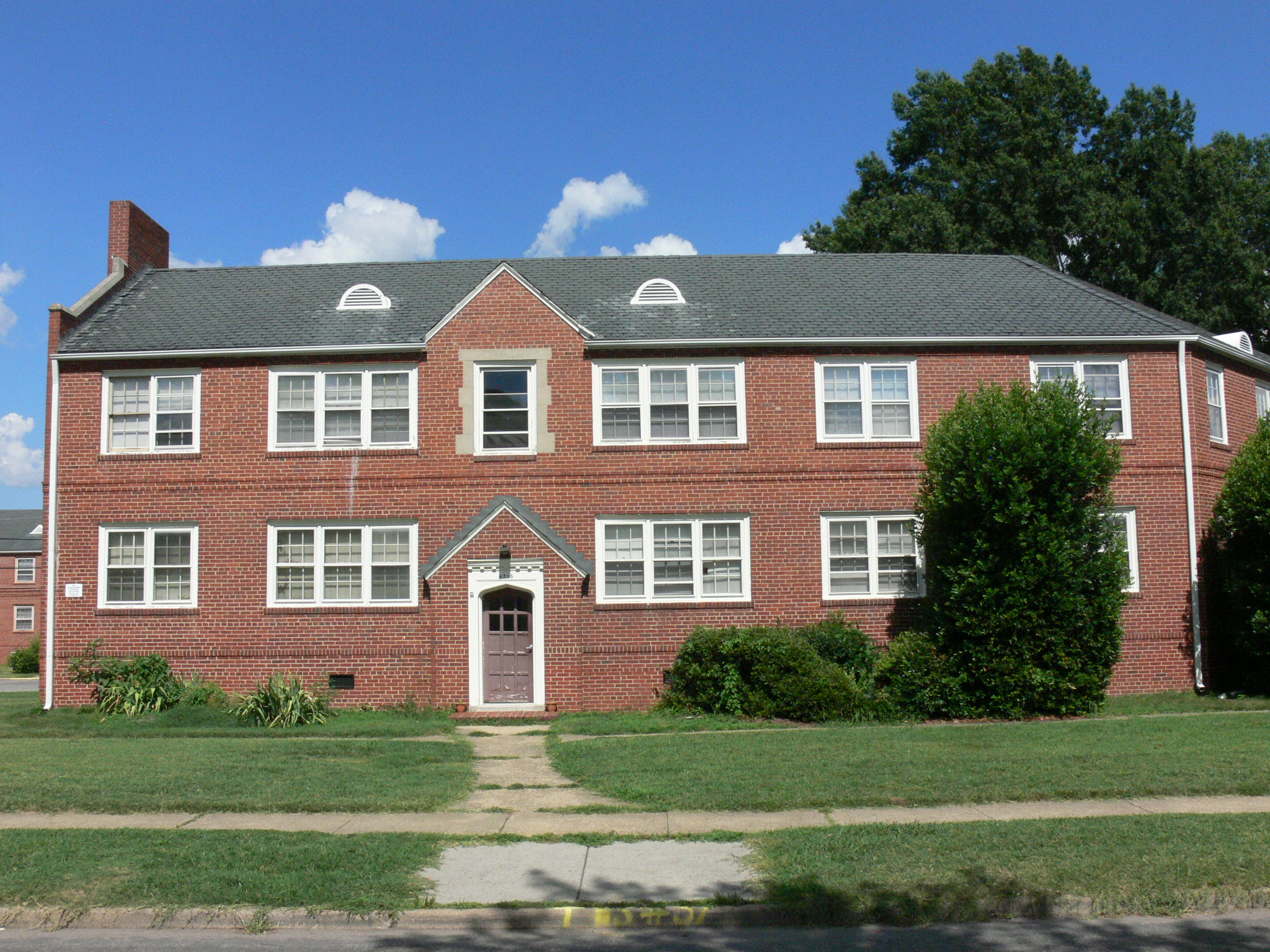 The Chamberlayne Gardens apartment complex in the Northside of Richmond, Virginia; on the National Register of Historic Places